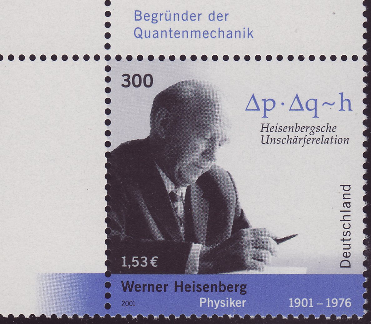 Stamp from Deutsche Post AG from 2001, 100th birthday of Werner Heisenberg